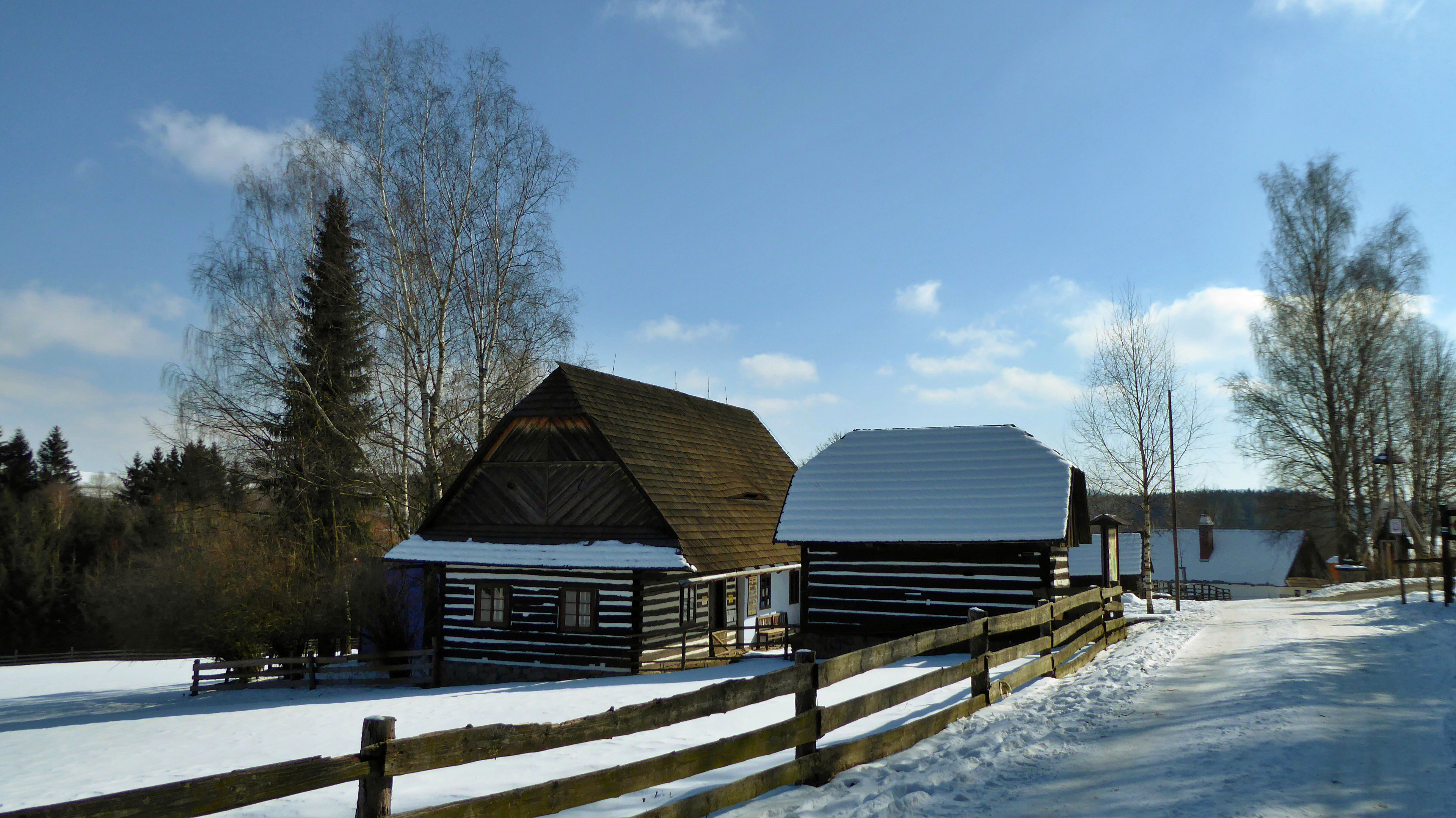 Merry Hill (Czech name: Veselý Kopec), entrance to the exposition of folk architecture and technical buildings of the Open-air Museum Vysočina (formerly with name Set of Folk Buildings Vysočina). The small hamlet of Merry Hill is a part of the village Vysočina in the Pardubický Region on the territory of the Czech Republic. In the area of a museum is green touristic route of the Czech Tourists Club, the all-year-round accessible (section trail: Králova Pila – Veselý Kopec – Dřevíkov). In the route also Homeland trail the Landscape of Chrudimka River (point number 9 – Veselý Kopec). Photo location: Czechia, Pardubice Region, village Vysočina, small hamlet Merry Hill, the landscape area Stružinecká knoll land (geomorphological district). Source of information: Merry Hill (czech: Veselý Kopec) – english official web presentation see